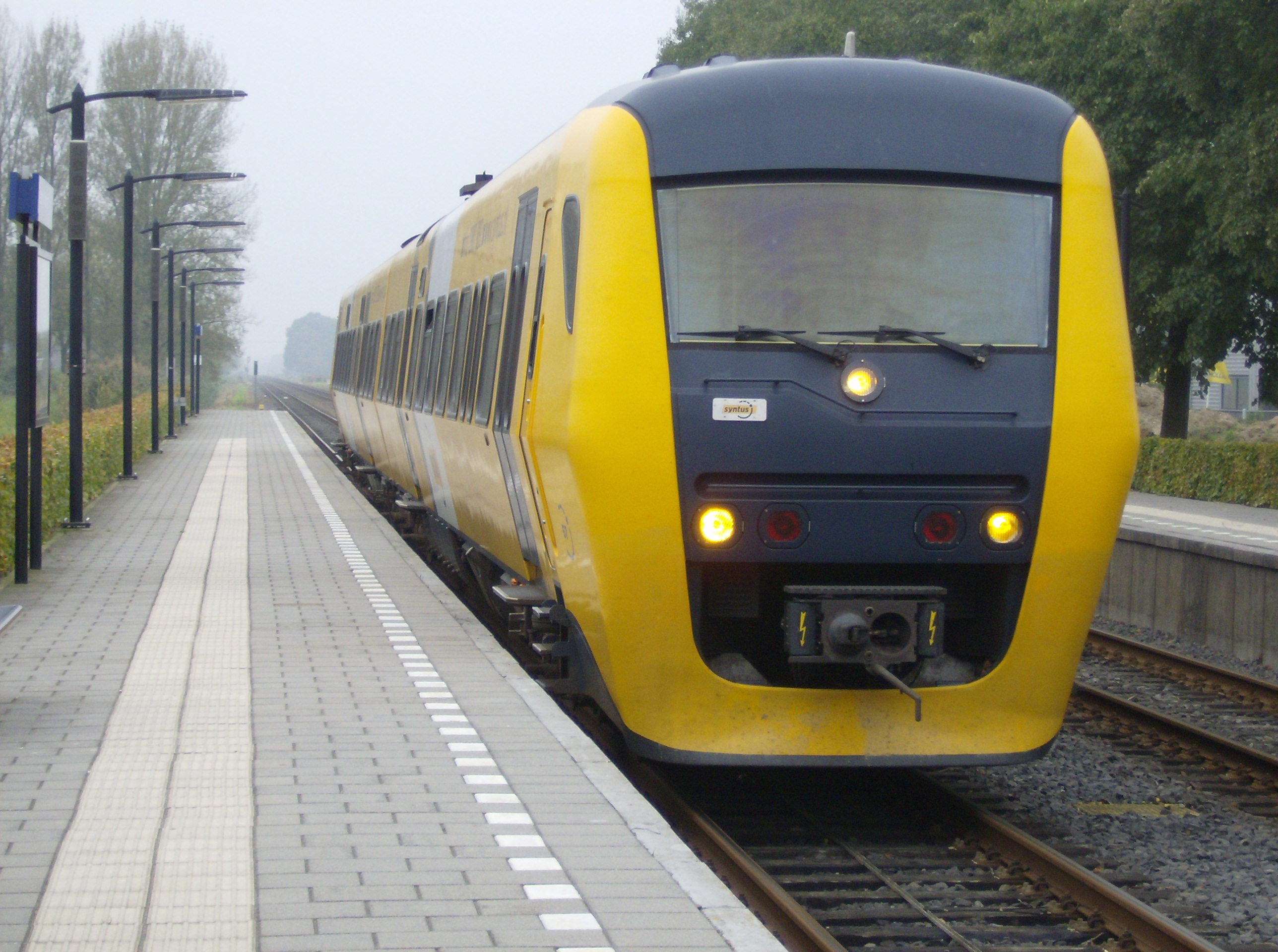 Syntus Buffel at Zetten-Andelst.